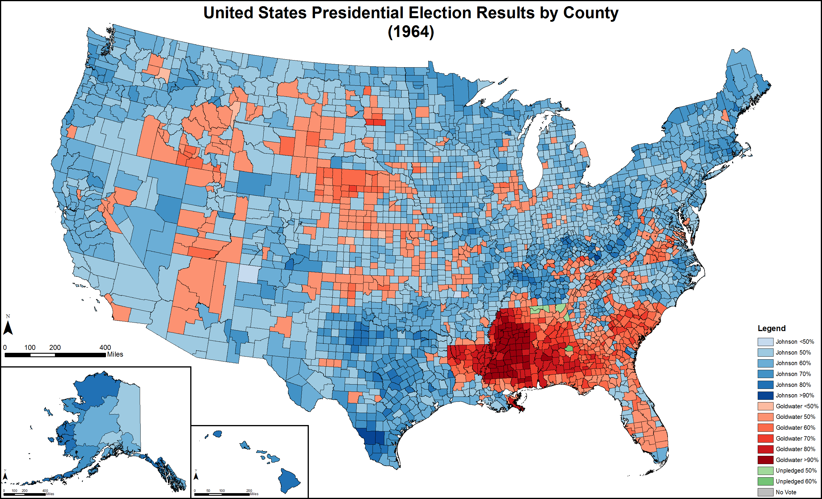 Presidential election results by county (1964). Colors based on Colorbrewer 2.0.